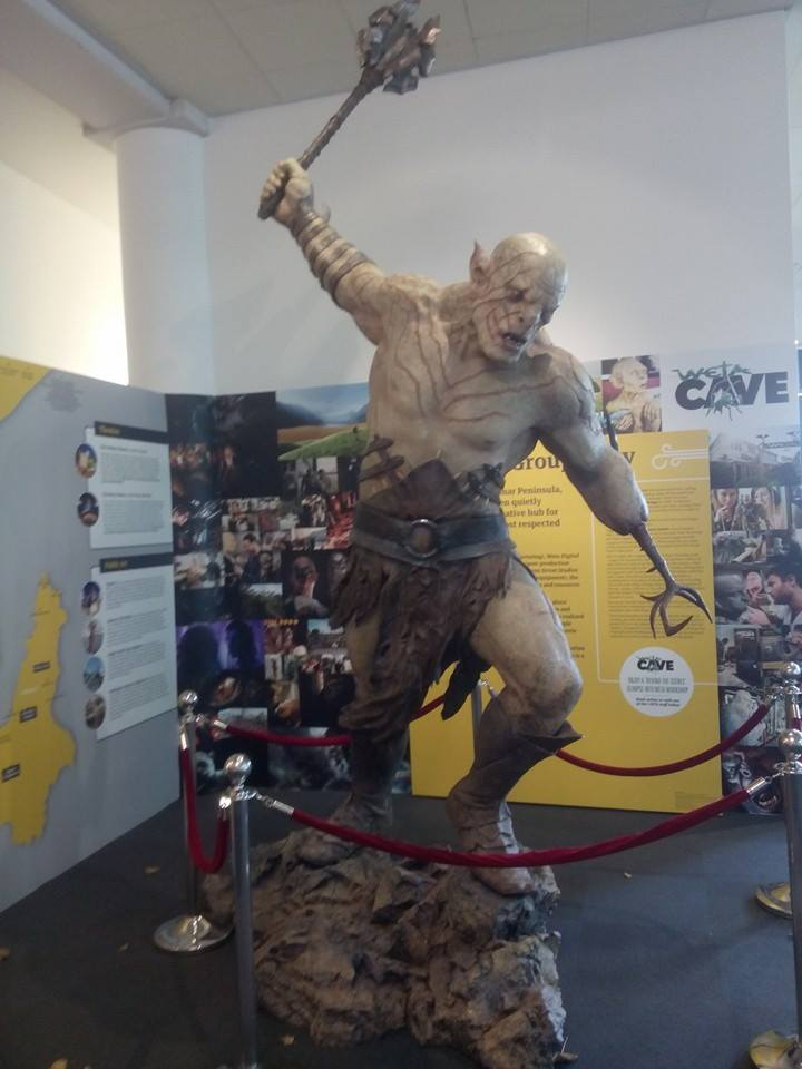 A model of a film-style Orc, displayed at Wellington i-Site in 2014